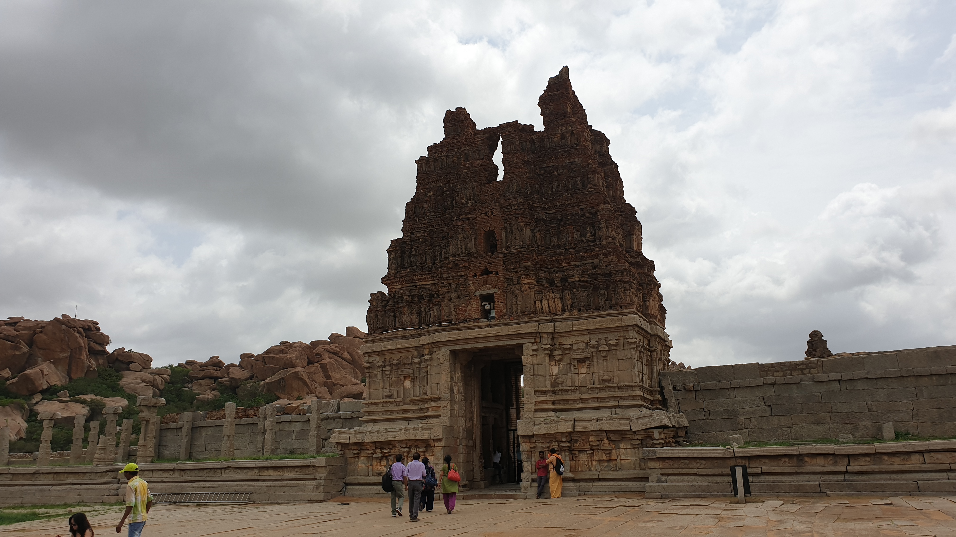 While the Virupaksha Temple is renowned for its sacredness,the Vittala Temple is an architectural masterpiece. This temple, which was dedicated to Lord Vishnu, was built in the 15th century by the Vijayanagara Kings, each of whom added to its structure. The center of attraction is the exquisitely carved monolith stone chariot of Garuda. Among the notable features of the temple are the musical pillars and carvings that depict life during that period, including images of Portuguese trading horses. Just outside the temple are the ruins of a large marketplace, where horses were traded by merchants from across the world, including Portugal and Arabia.